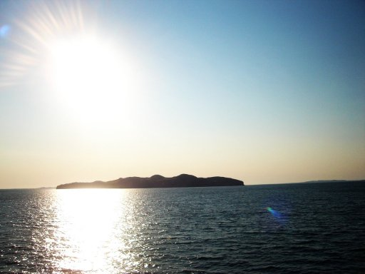 View of the back of Entry Island from the Ferry